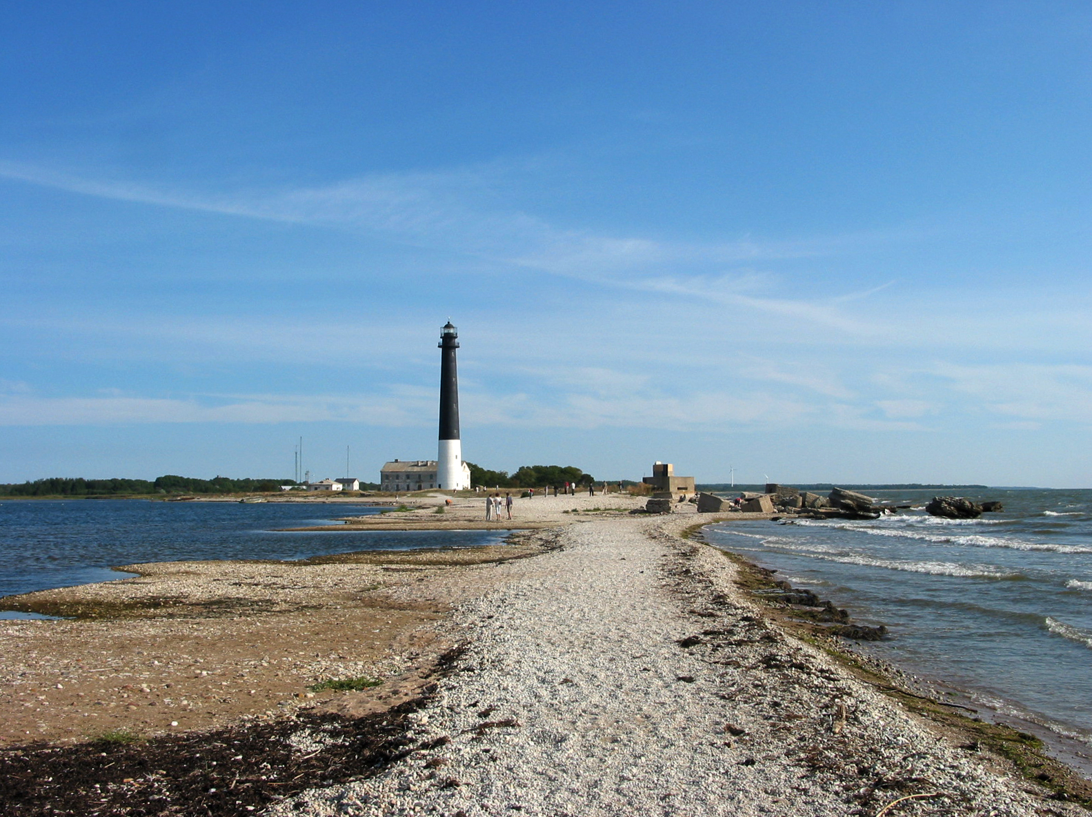 Lighthouse of Sõrve Peninsula on Saaremaa Island, Estonia. Taken from South. On the right, the Gulf of Riga; on the left, the Baltic Sea